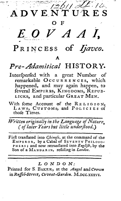 Title page from Eliza Haywood's Eovaai